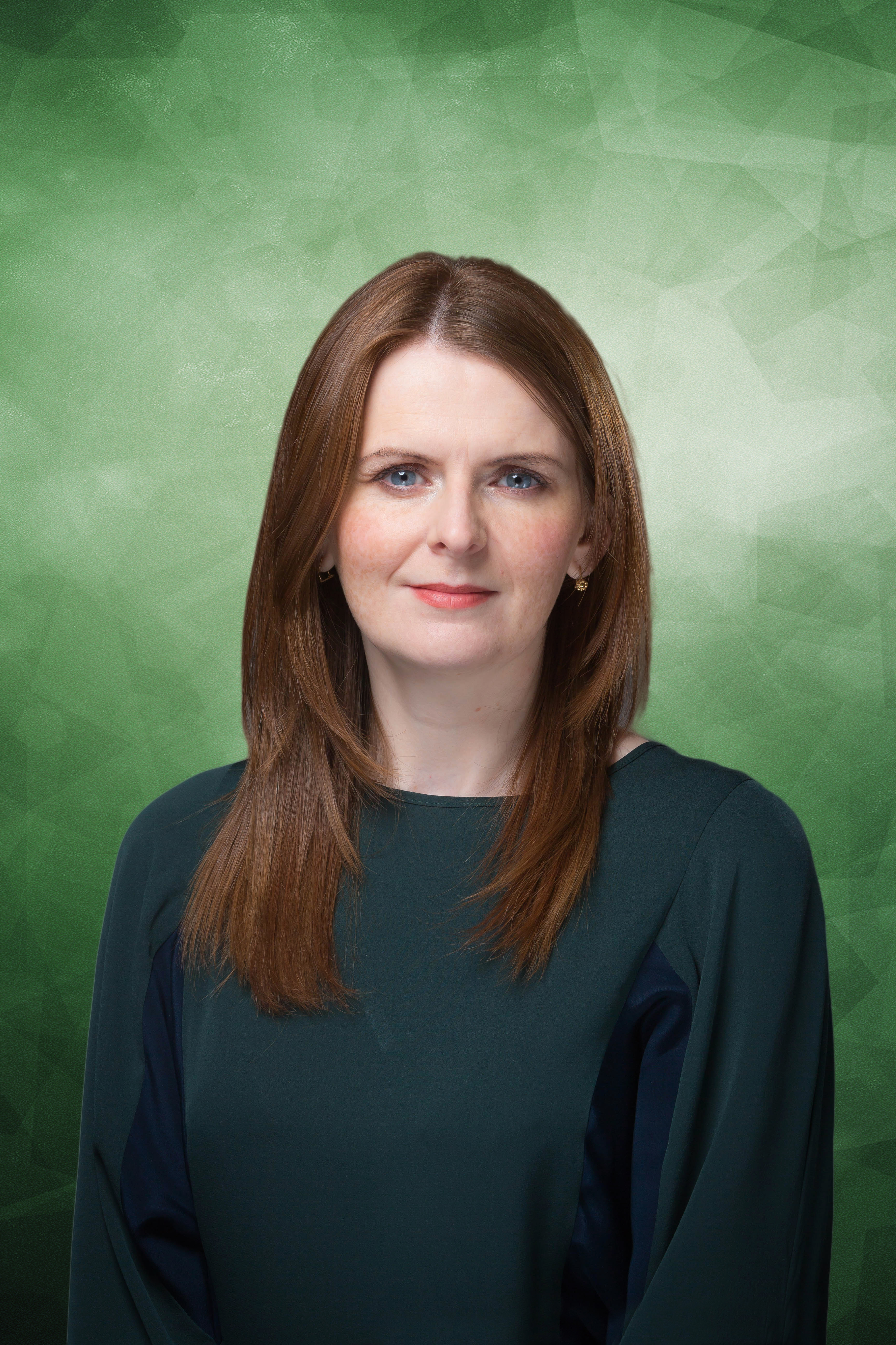 Caoimhe Archibald in 2014